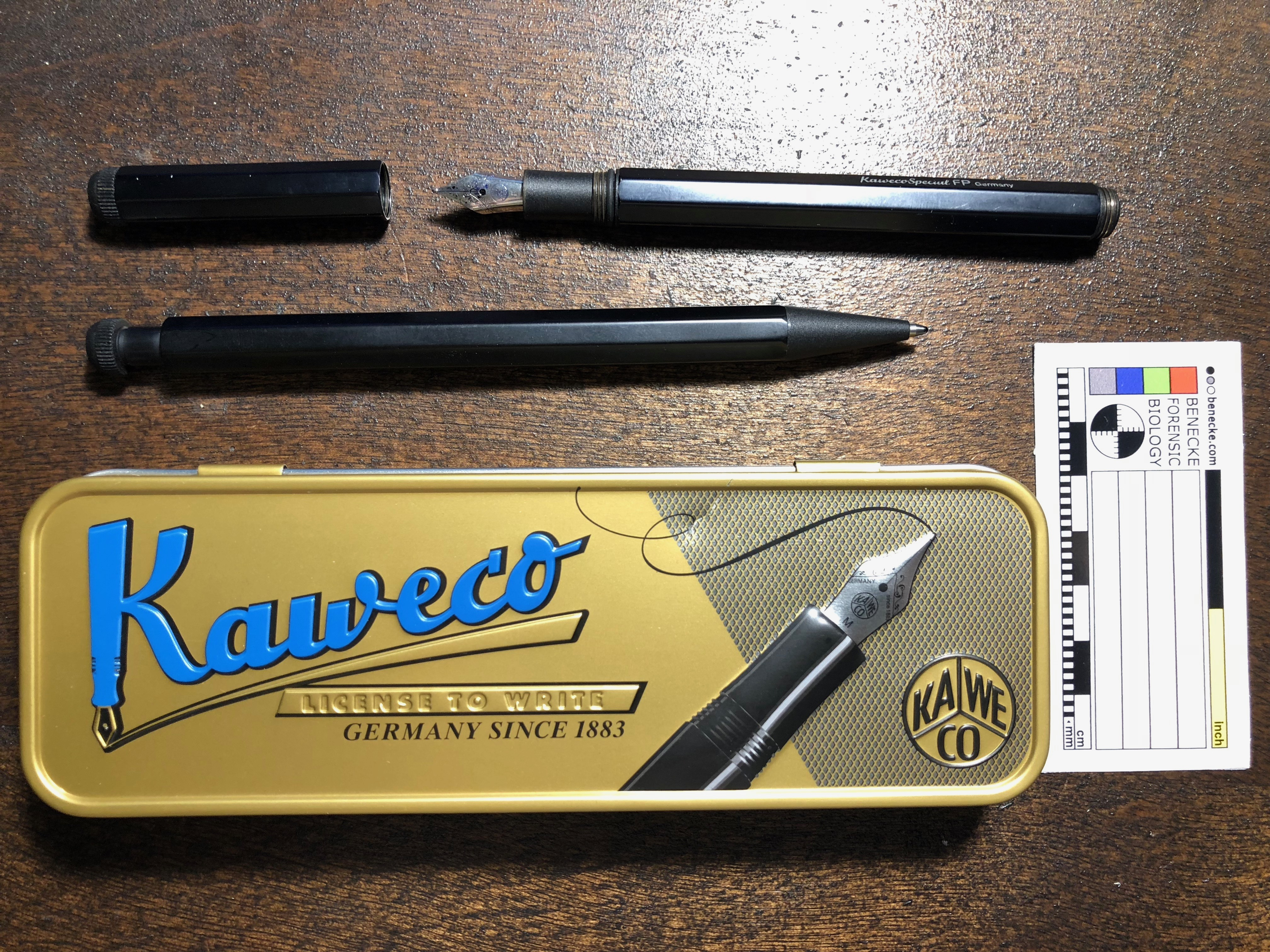 KAWECO full aluminium metal pens (series name: "Special") from Germany: A ball pen, a fountain pen and a box.